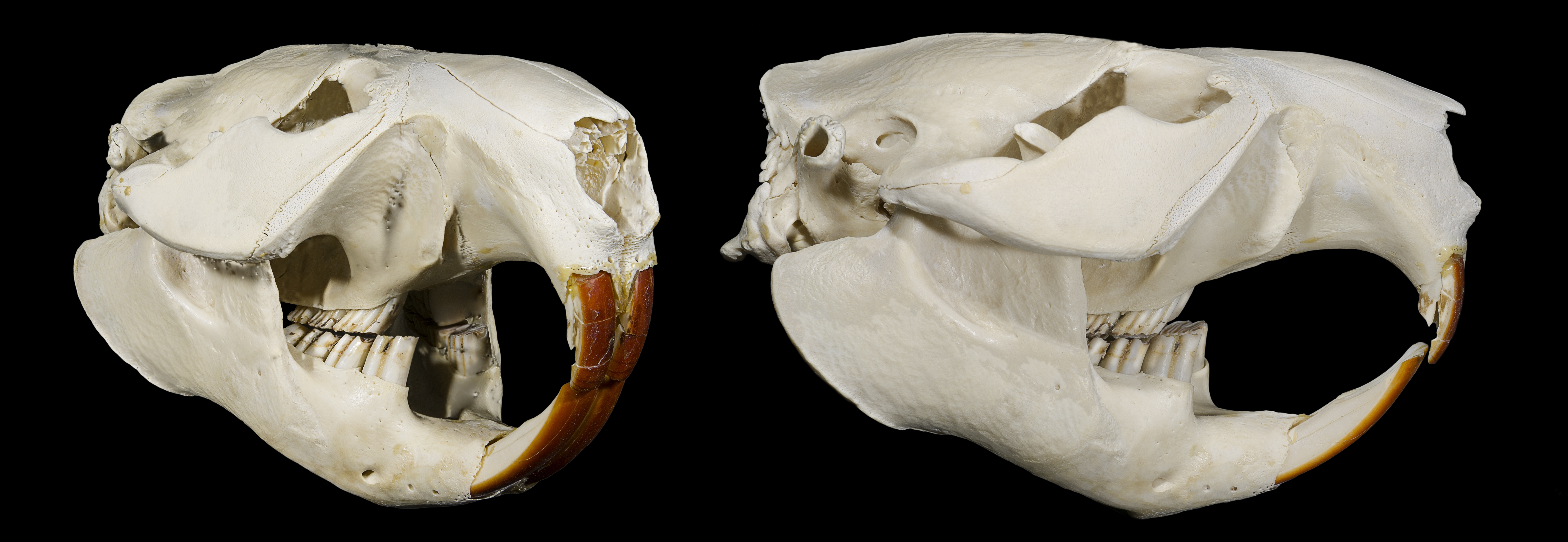 North American Beaver (Castor canadensis) - Two views of the same skull Size :13 x 9 x 9 cm